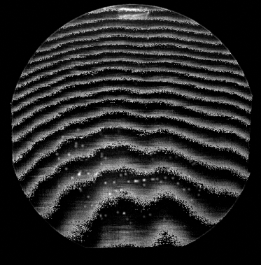 Ultra sonic image of a blank Au-Si eutectic bonded wafer.